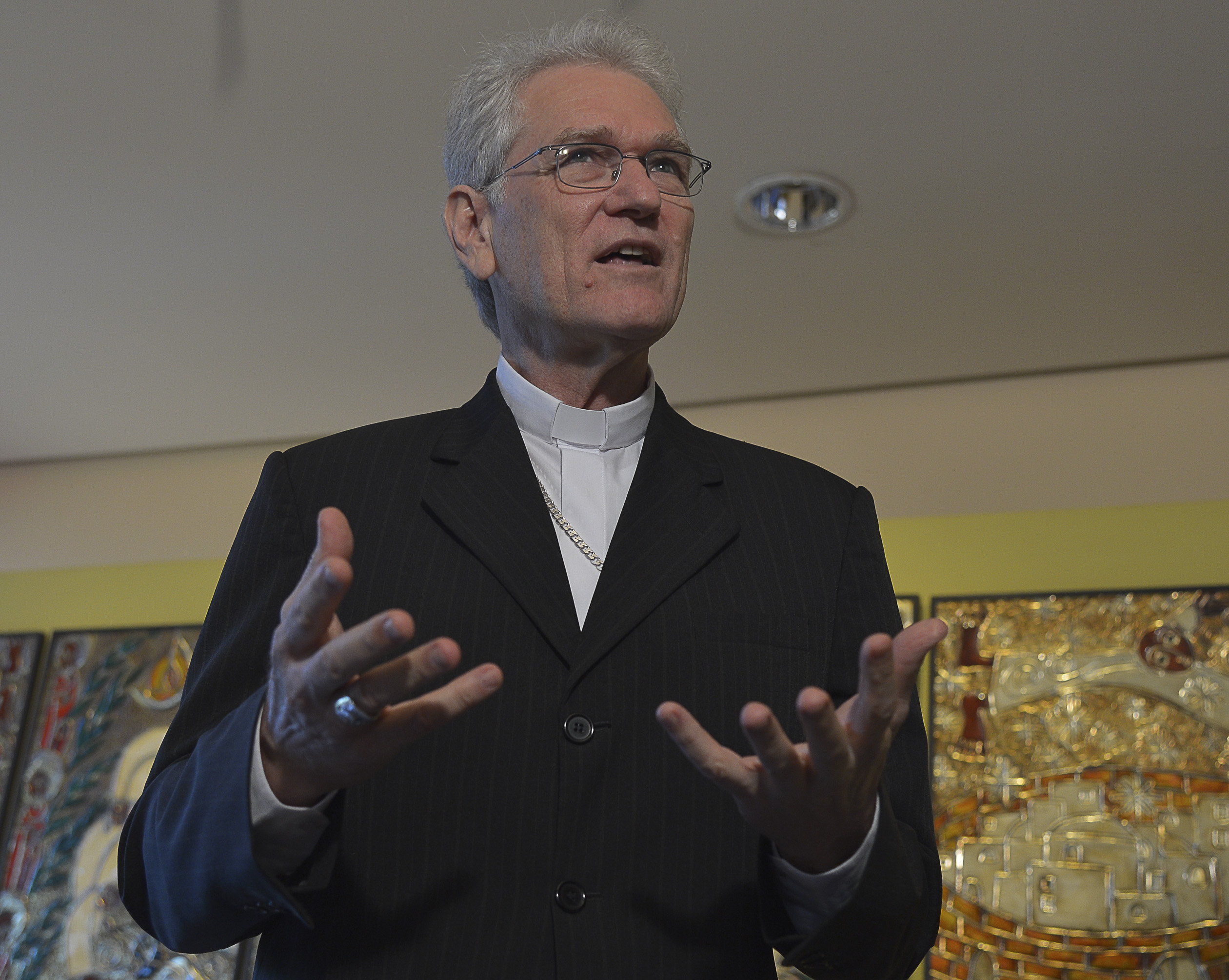 Bishop L. U. Steiner in Brasilia, Brazil